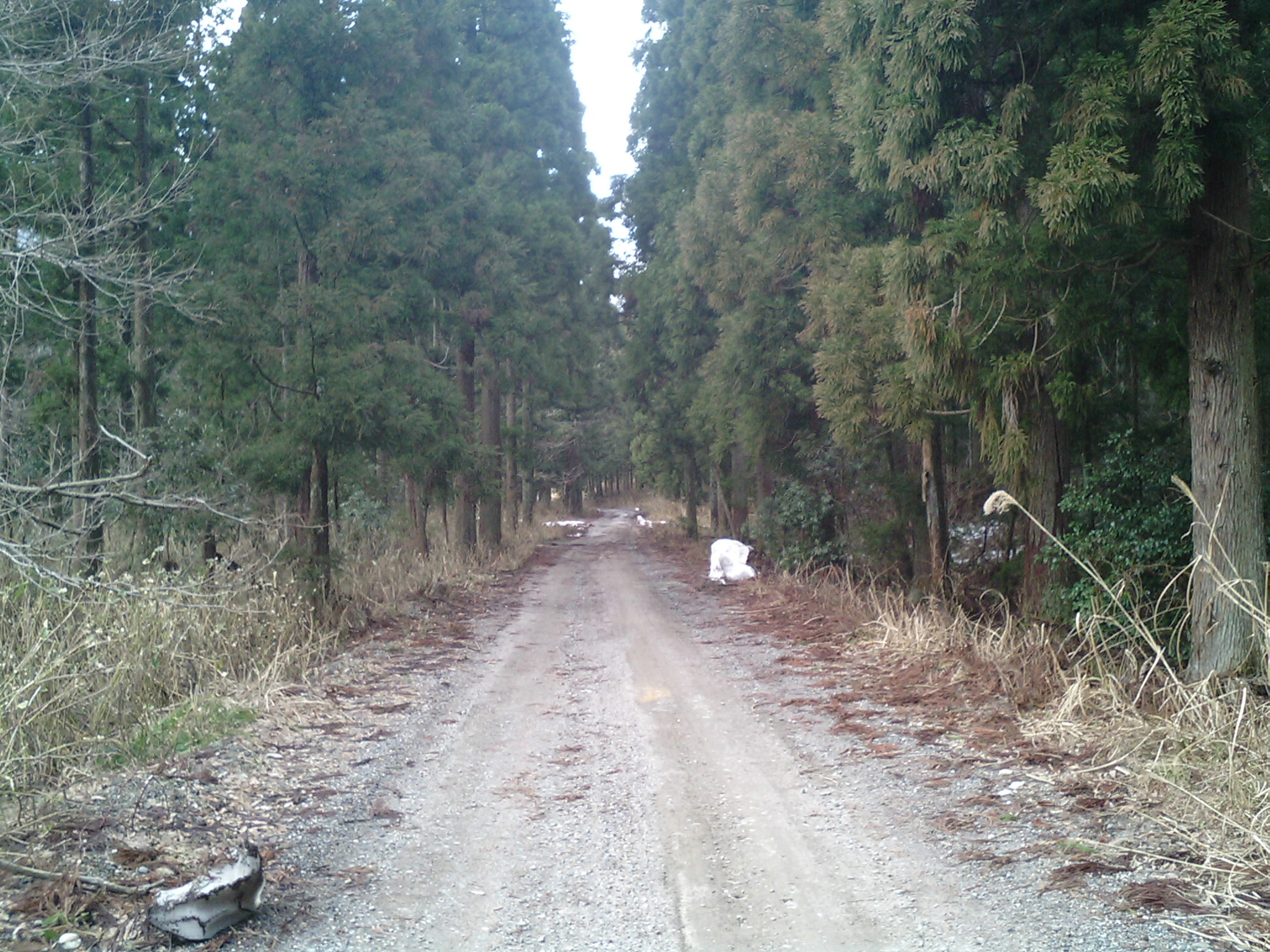 The Kuroko Valley